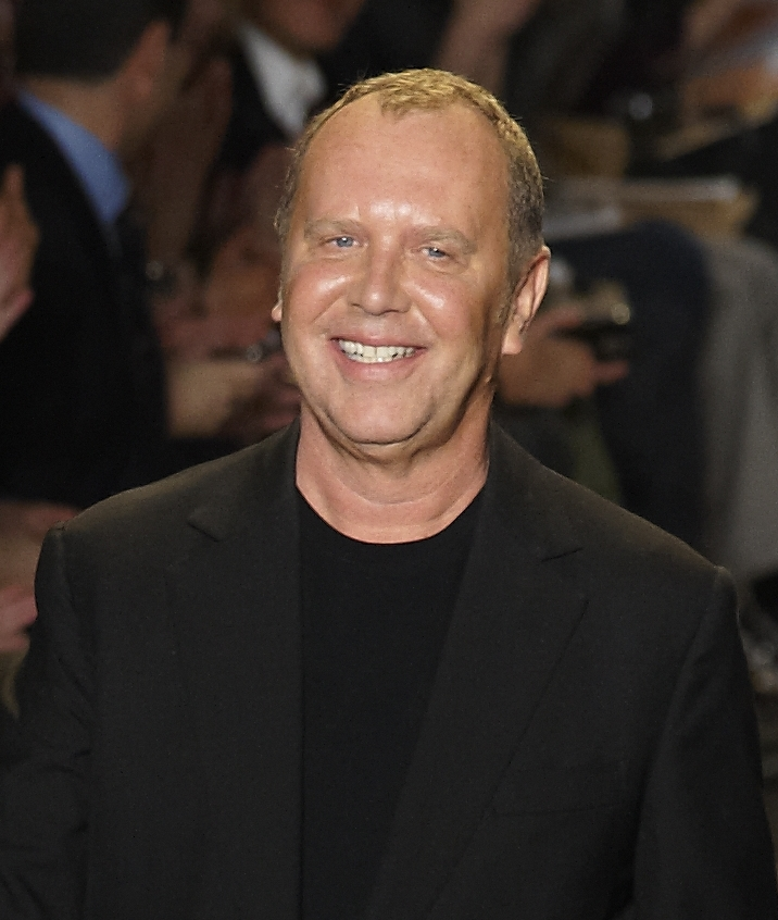 Michael Kors receives applause at the conclusion of his Fall/Winter 2010 show at New York Fashion Week, February 2010.